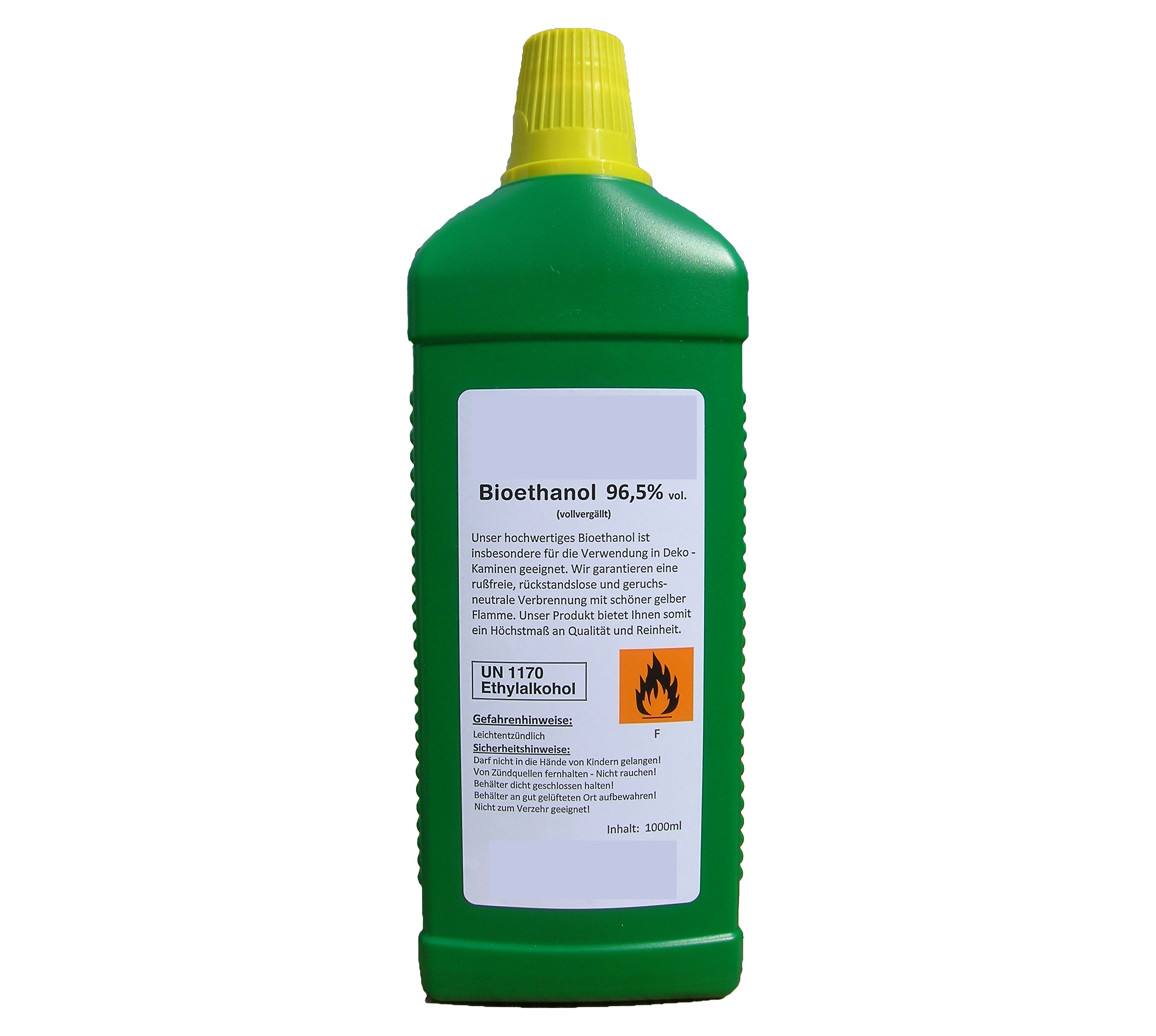 Spitits